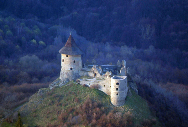 Somoskő, Hungary, aerial photography